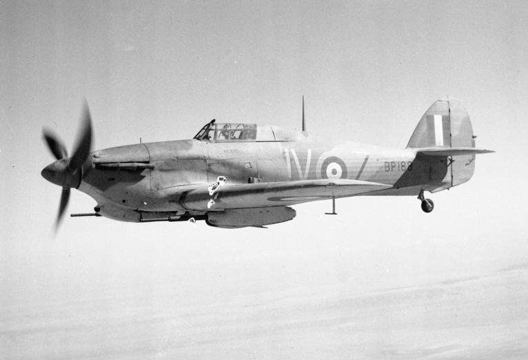 A Hawker Hurricane Mark IID (BP188, ‘JV-Z), of ‘B’ Flight, No. 6 Squadron RAF, based at Shandur, Egypt, in flight. Two 40mm Vickers anti-tank cannon are fitted under each wing. These anti-tank aircraft were nicknamed "Flying Can Openers".